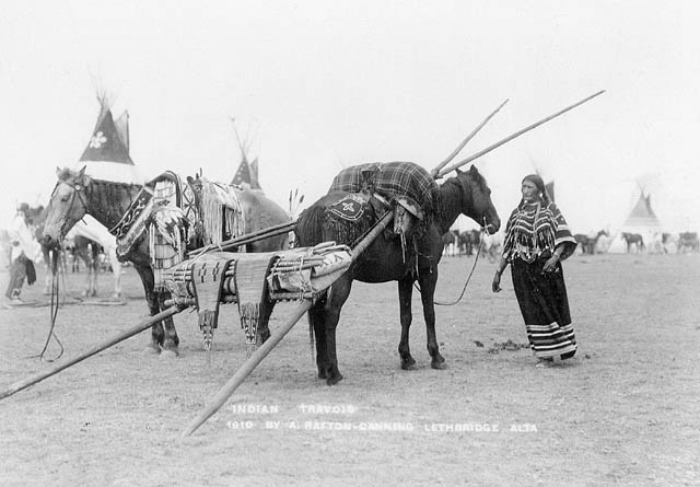 Kainai (Blood) parade and travois